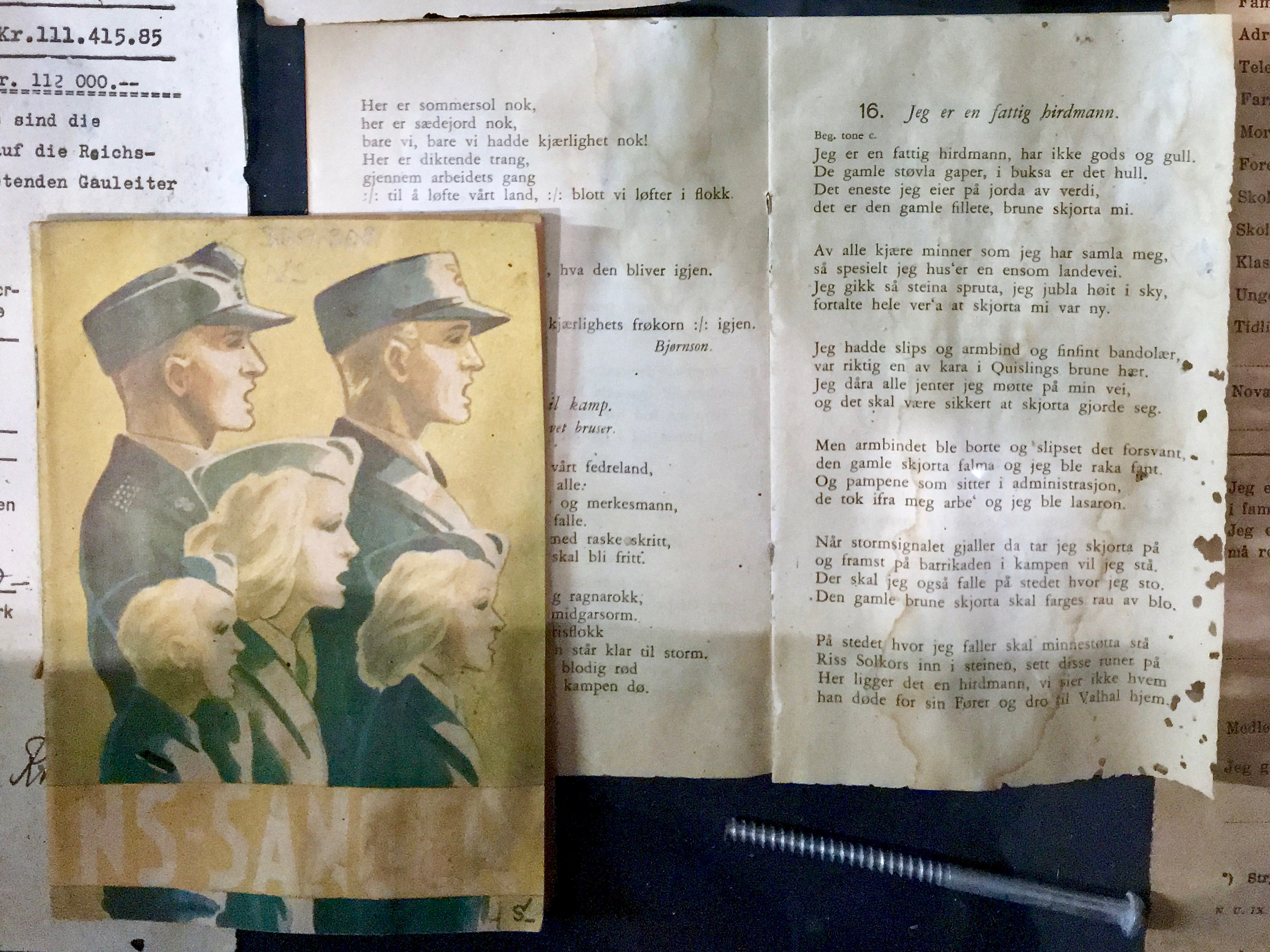 NS-SANGER (Nasjonal Samling songbook). "Jeg er en fattig hirdmann." Photo taken on 2017-11-30 at the exhibition of Norway's WW2 Resistance Museum (Hjemmefrontmuseet) at Akershus fortress in Oslo, Norway.